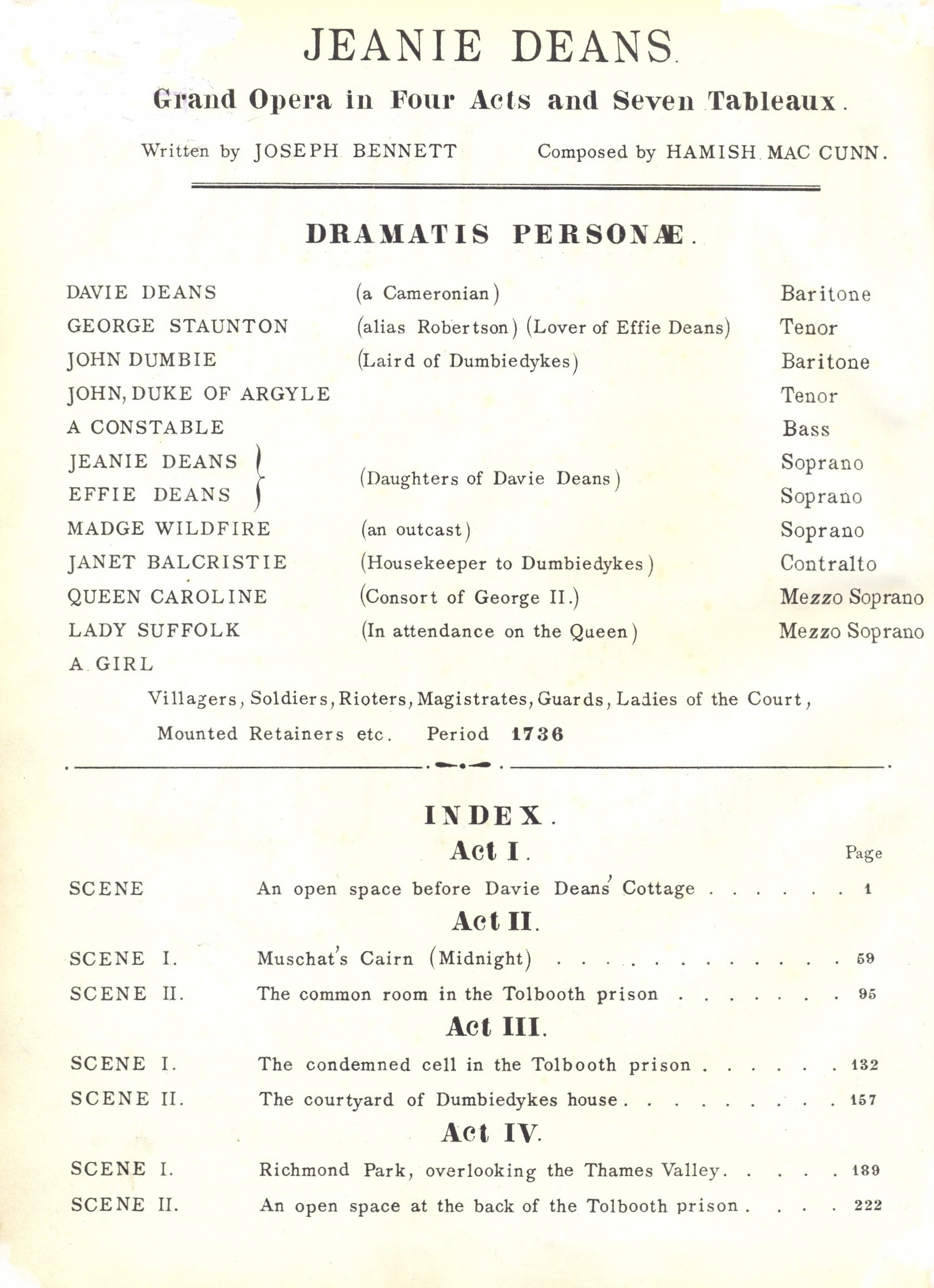 This is a copy of the roles and contents of Hamish MacCunn's 1894 opera Jeanie Deans from the vocal score. It was published in 1894 and is well out of copyright.